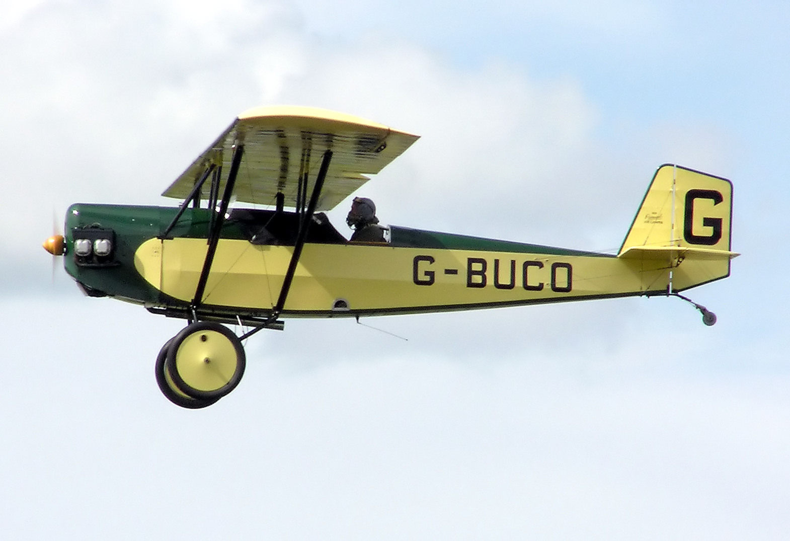 Home-built Pietenpol Air Camper (UK registration G-BUCO) at Kemble Airfield, Gloucestershire, England. Photographed by Adrian Pingstone in July 2005 and placed in the public domain.